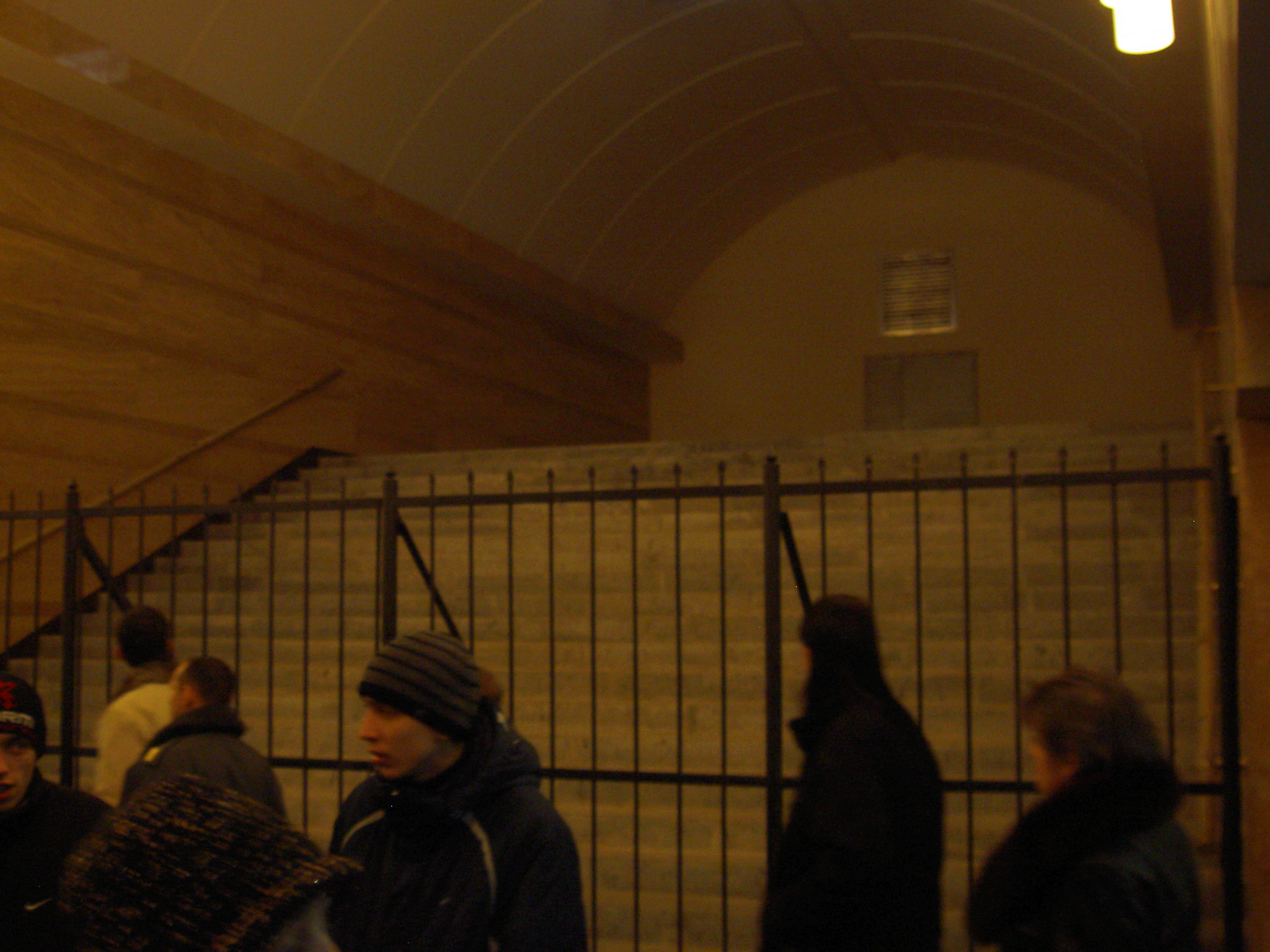 Spasskaya metrostation.